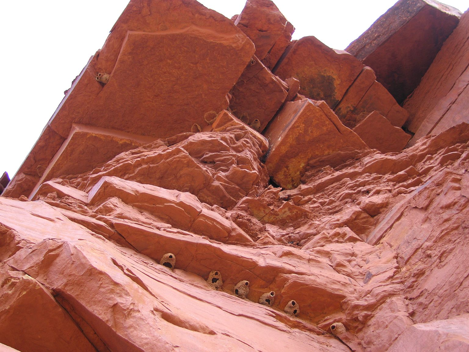 Cliff Swallow (Petrochelidon pyrrhonota) Nests near the Fremont River, Utah, USA